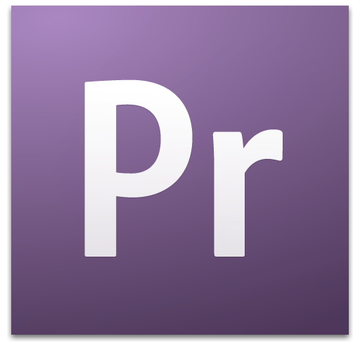 Adobe Premiere pro